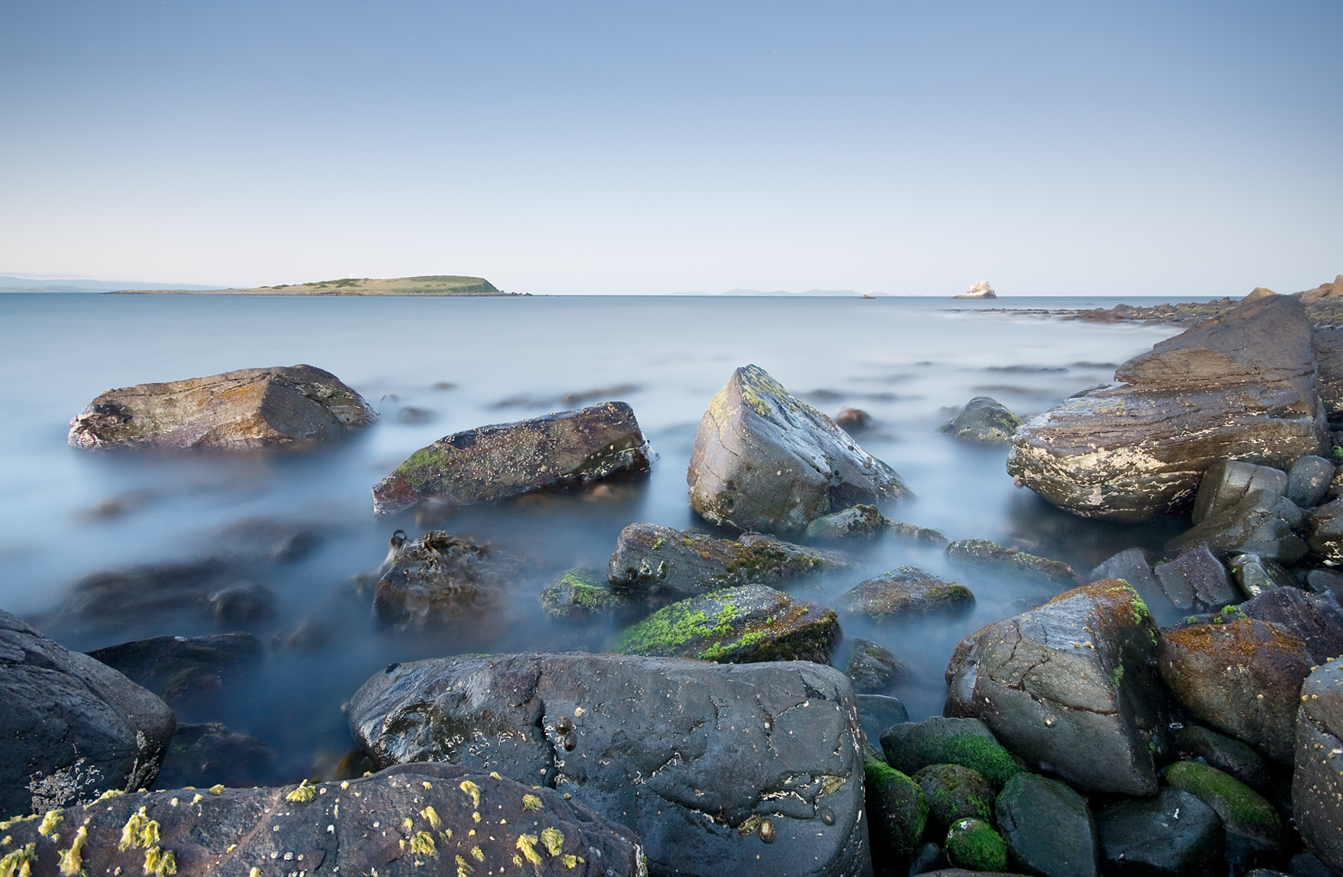 Cape Boullanger, Maria Island National Park, Tasmania, Australia.